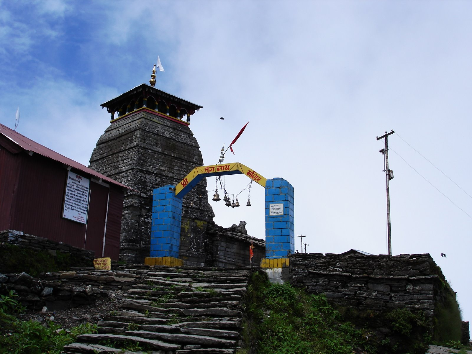 Tungnath temple, Tungnath, Uttarakhand.